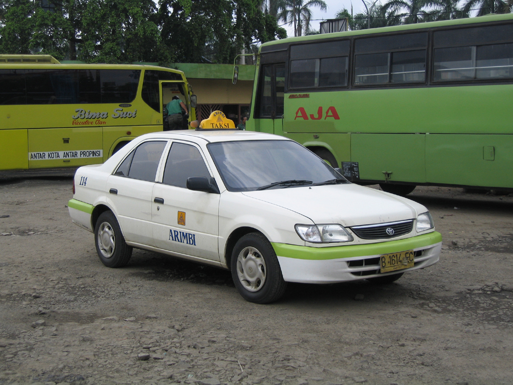 Toyota Soluna 1.5 XLi (AL50) Arimbi Taxi in Indonesia.